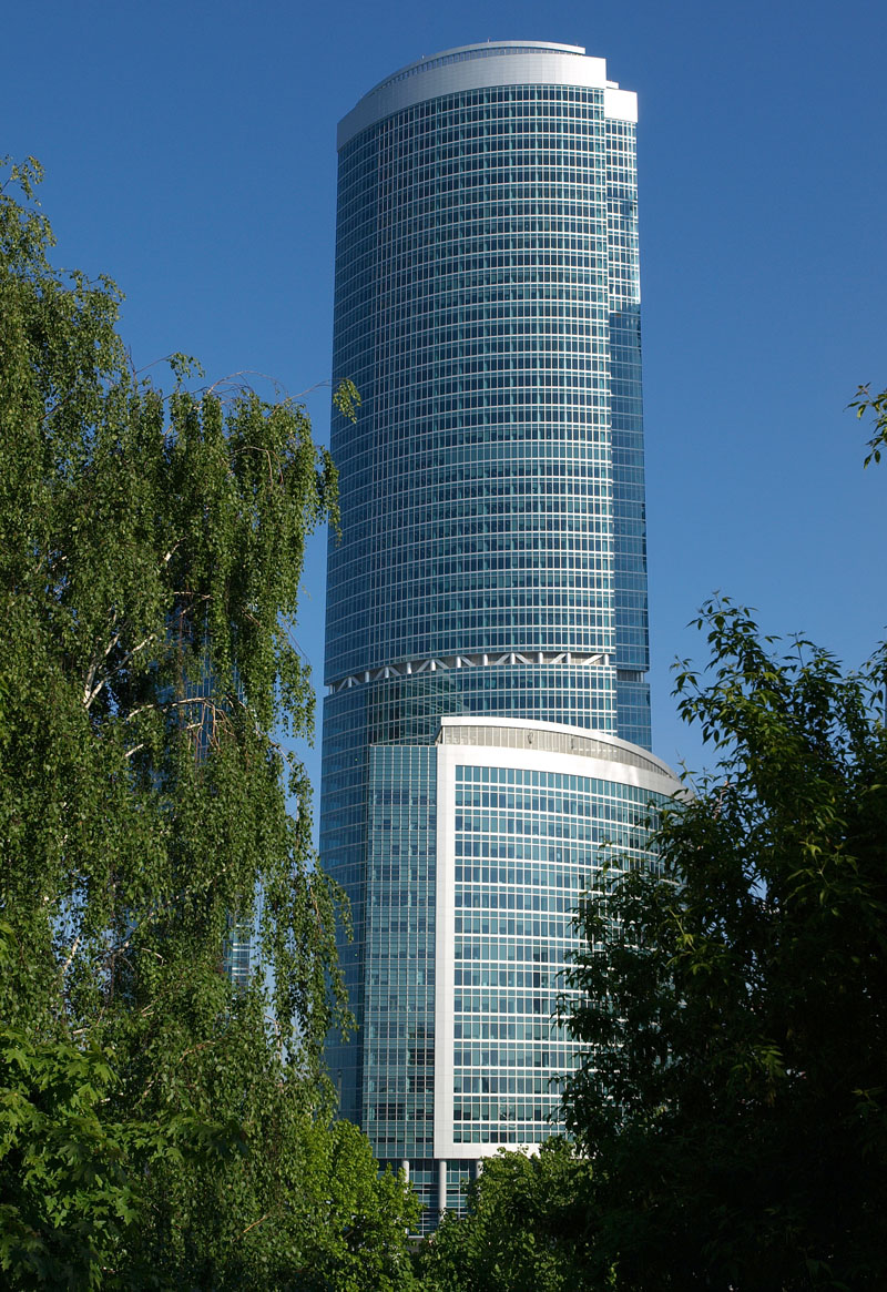 Naberezhnaya Tower of Moscow City. Testing the new Zuiko 12-60 f/2.8-4 zoom.